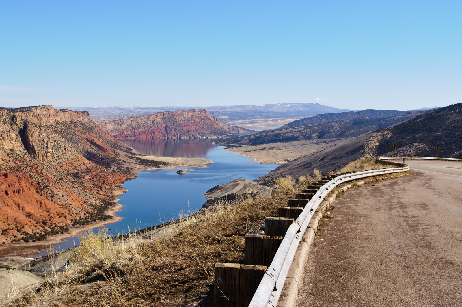 Flaming Gorge is located in the extreme northeast of Utah, near the town of Manila, on the Wyoming border and fairly close to Colorado as well. The main feature of this area is this reservoir, which straddles both Utah and Wyoming. I am on UT-44 which leads from Manila to southbound US-191, on my way to Vernal.